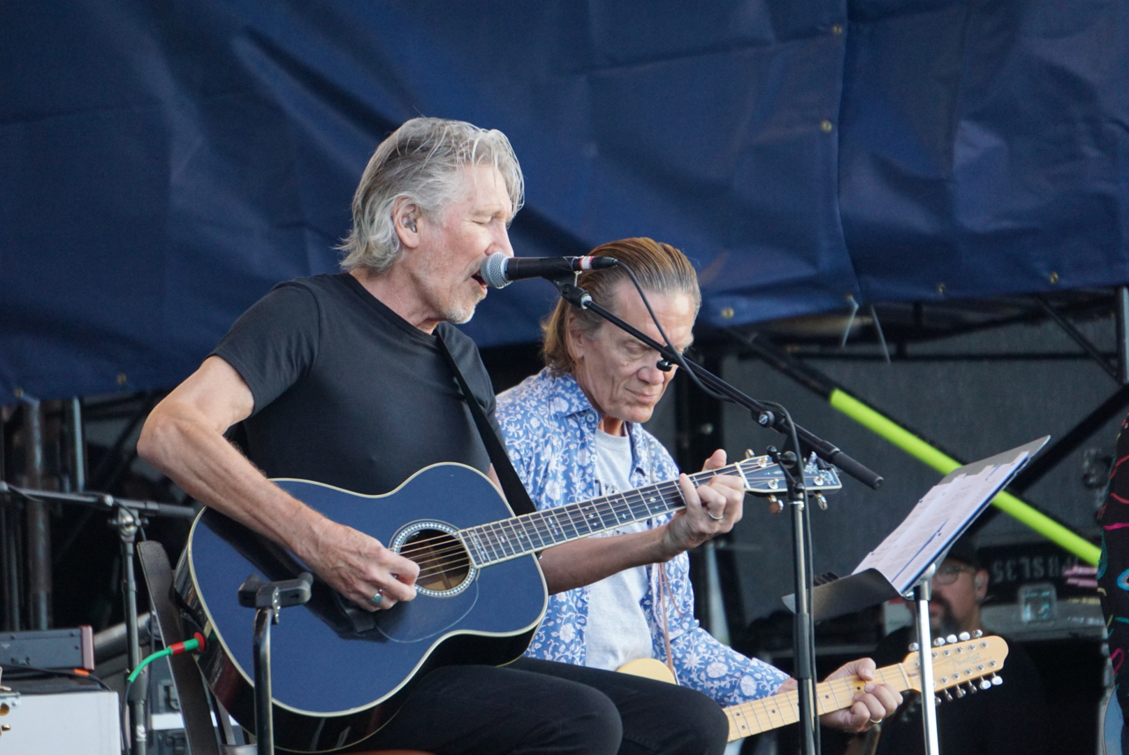 Roger Waters and G.E. Smith performing at the Newport Folk Festival in Newport, Rhode Island in 2015